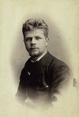 Danish architect Aage Lønborg-Jensen (1877-1938)